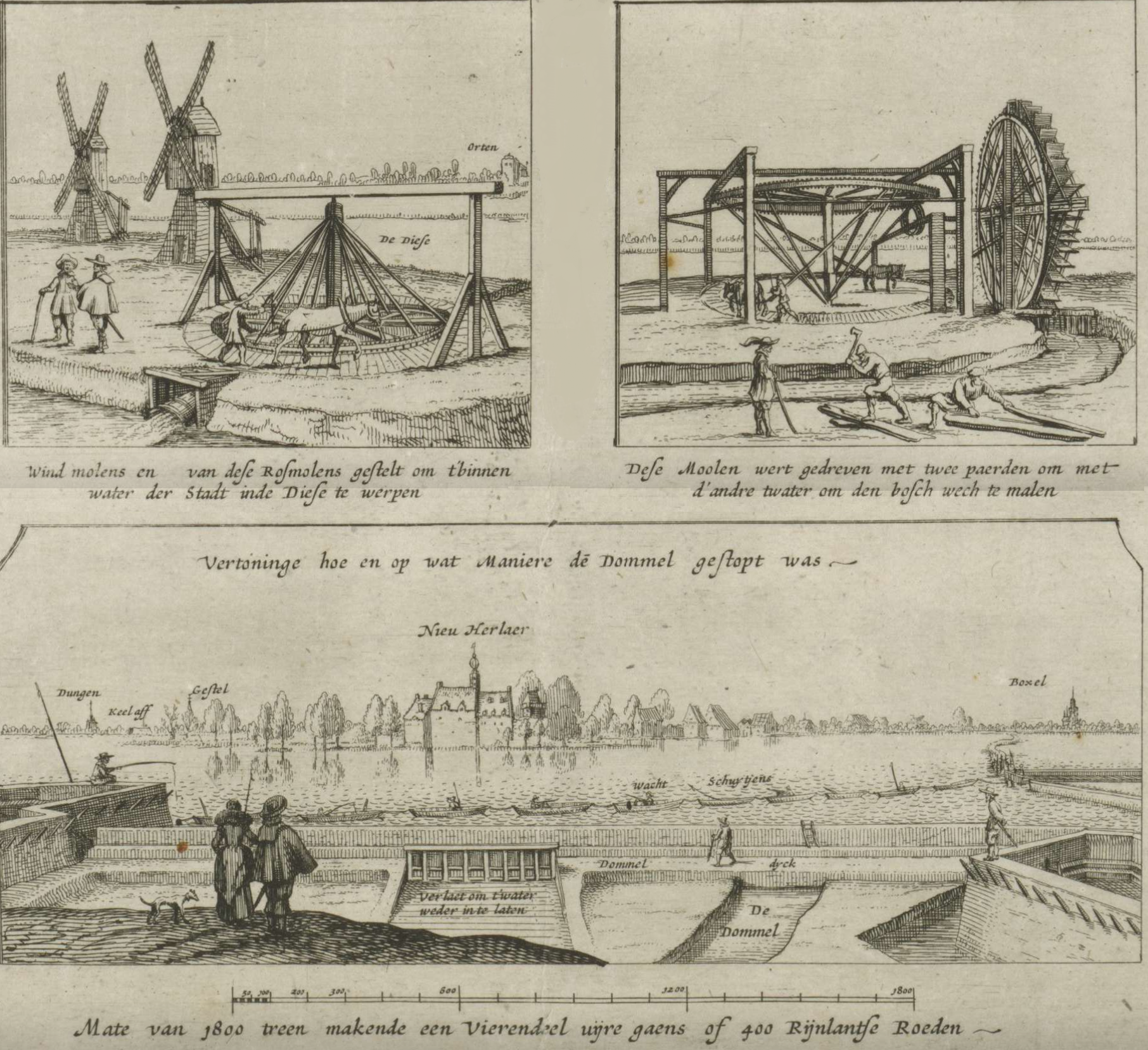 water usage at the siege of 's-Hertogenbosch in 1629